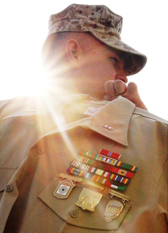 Ribbons and badges of a US Marine. For use in USMC articles concerning uniforms and badges.